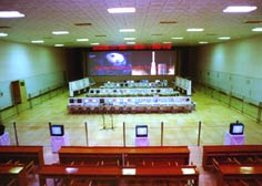 Xichang Satellite Launch Center